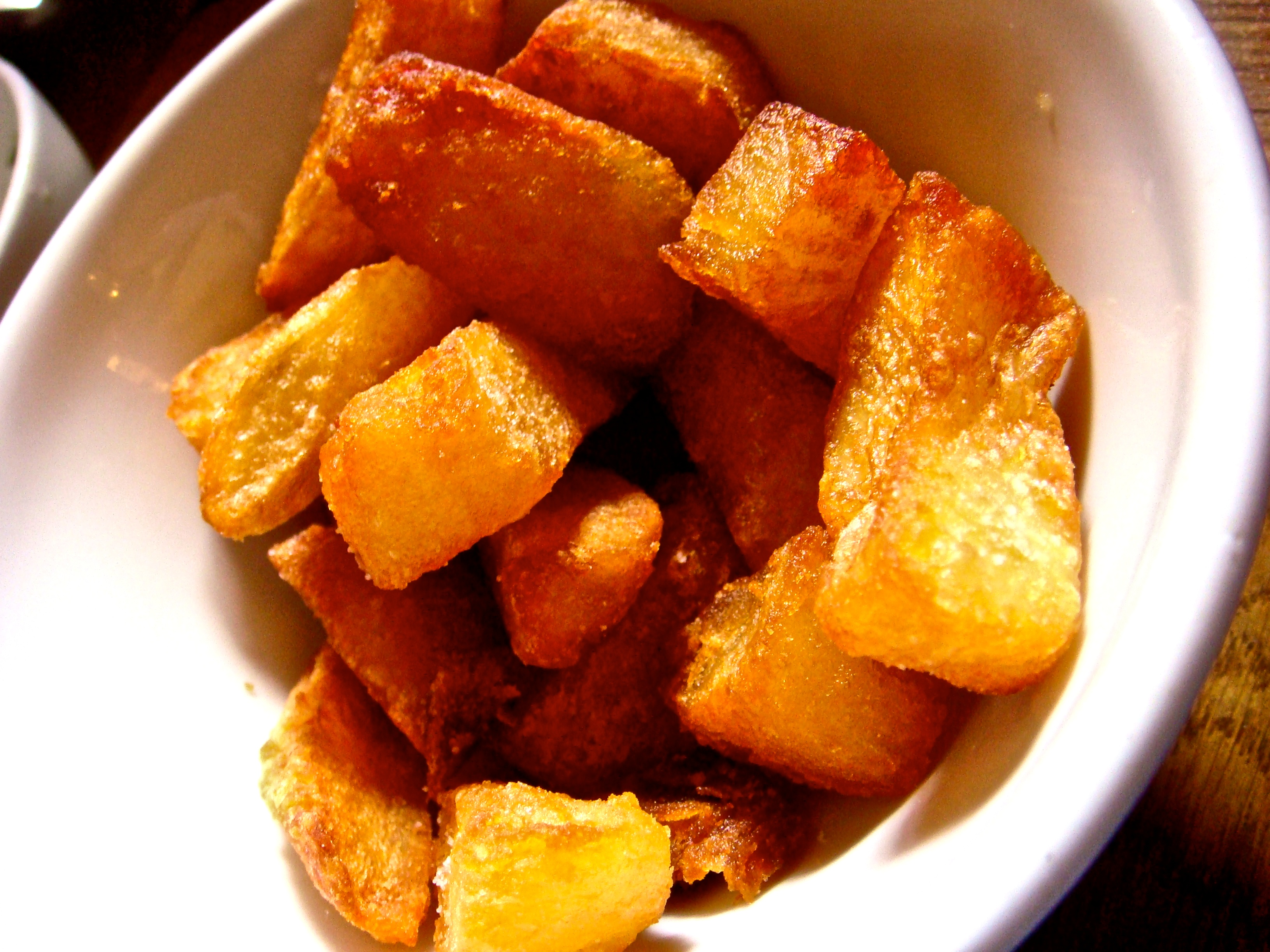 By Heston Blumenthal at the Hinds Head, Bray.